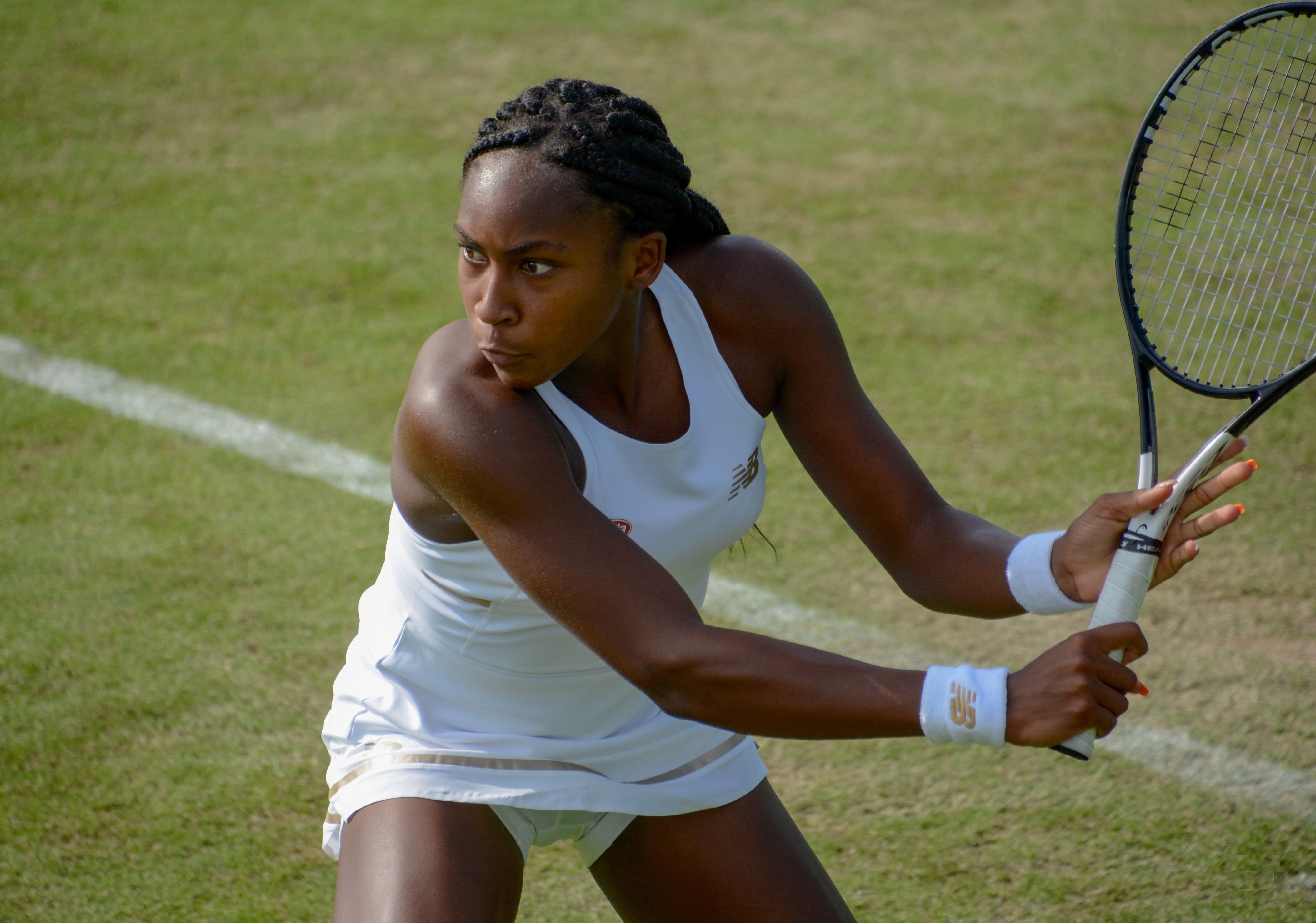 Wimbledon qualifying, Roehampton 2019.